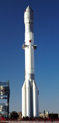 The Proton rocket which launched the Mars 96 spacecraft.